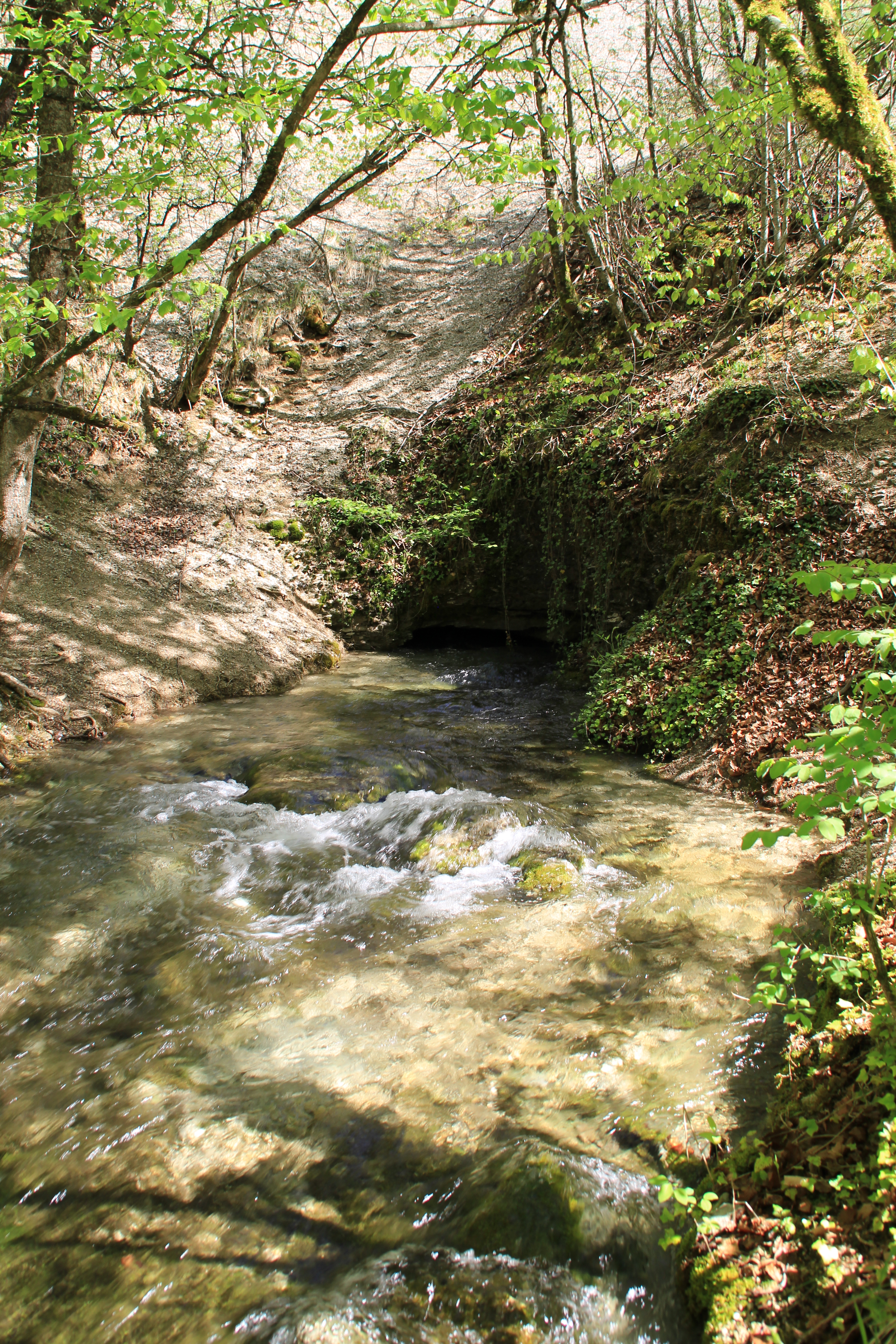 The Source de la Coquille in Étalante, France